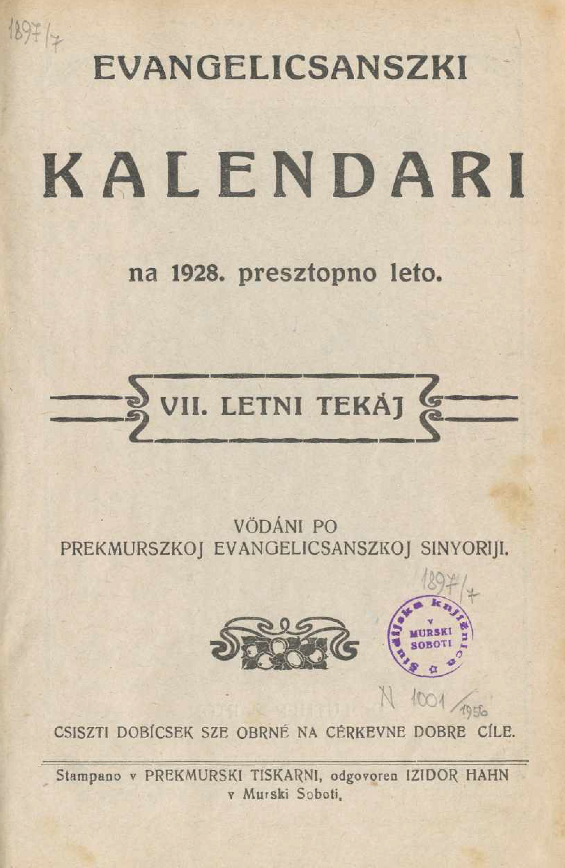 The Evangelicsanszki kalendar, prekmurian (prekmurščina) calendar in 1928